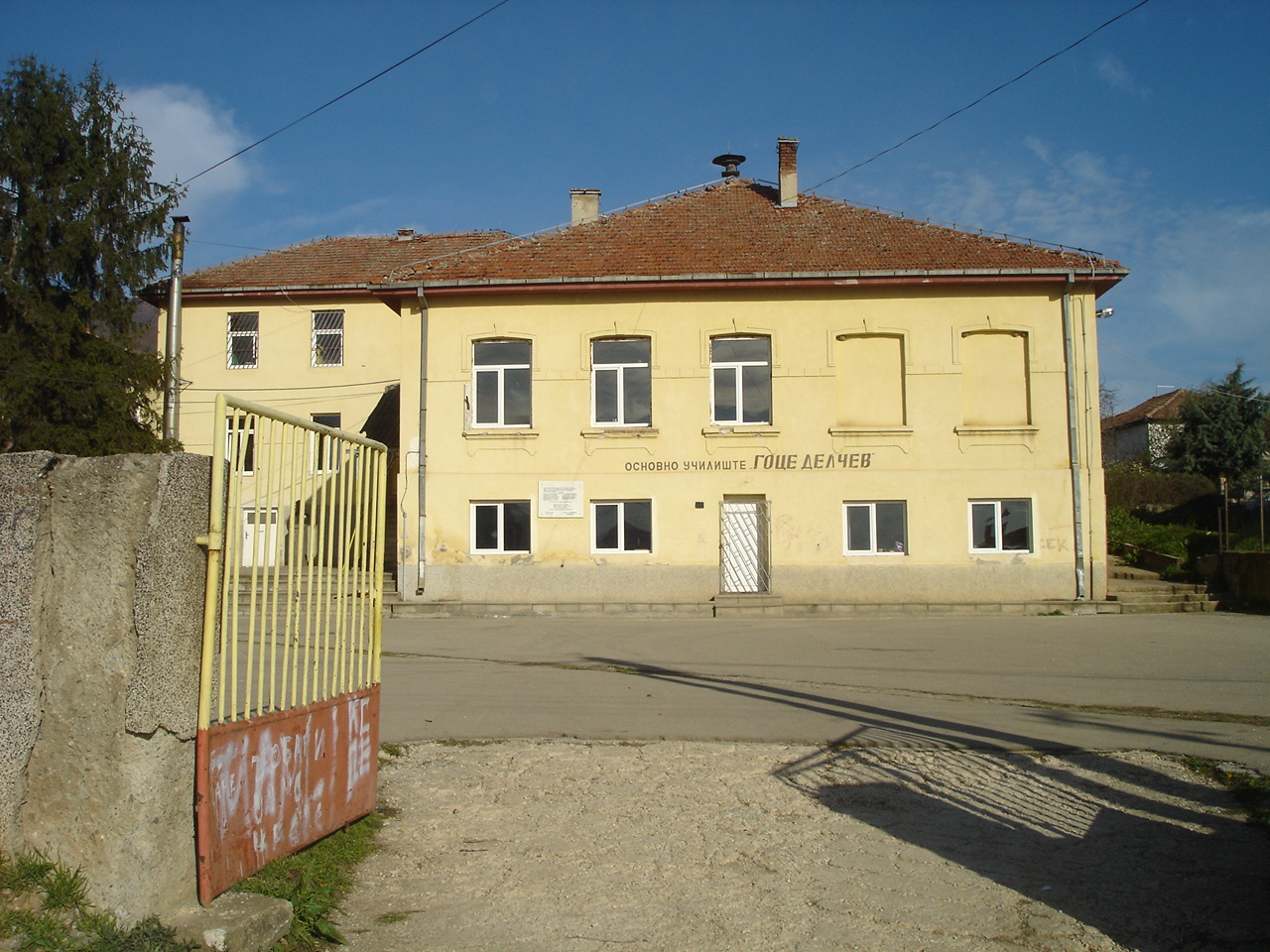 Primary school in the village of Ljubanci, near Skopje, Macedonia